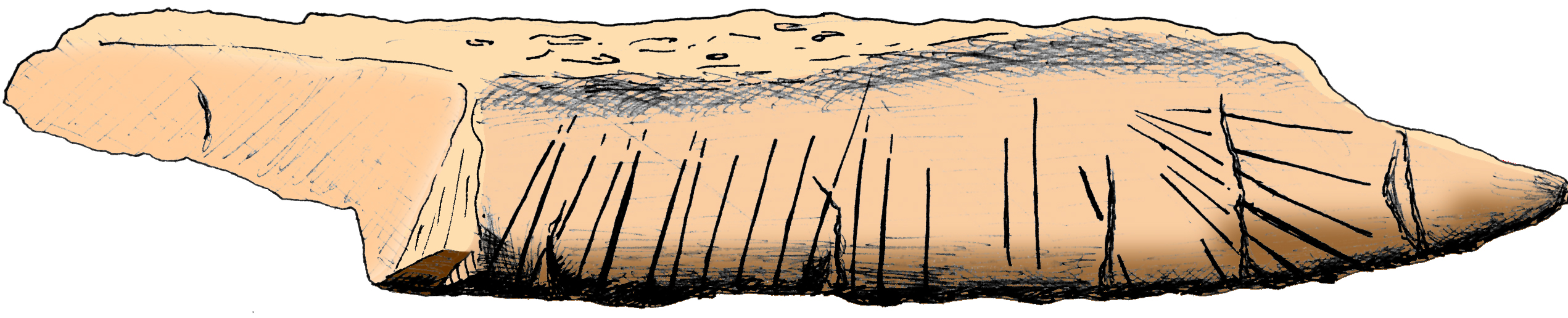 Bilzingsleben bone fragment (Germany), an elephant tibia, has some groups of incised parallel lines and might represent an early example of art.